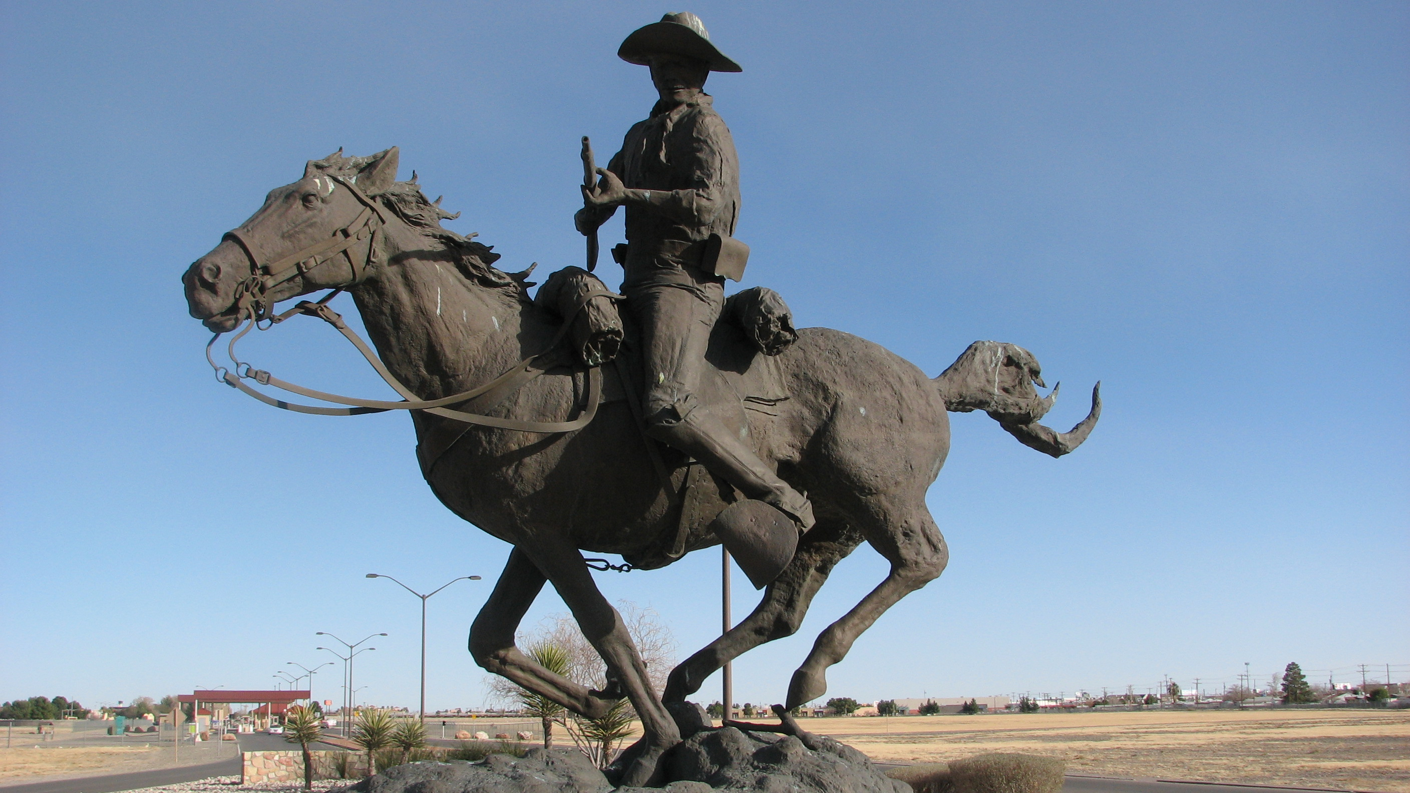 Buffalo Soldier Memorial of El Paso, Fort Bliss, depicts 'The Errand of Corporal Ross', I Troop, 9th Cav